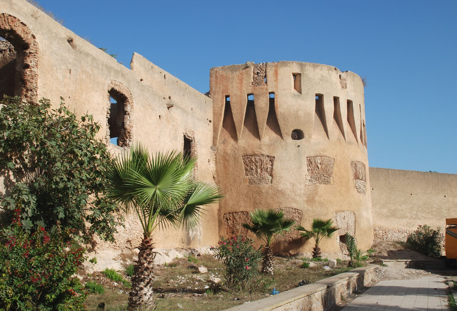 Azemmour, Morocco, old city wall